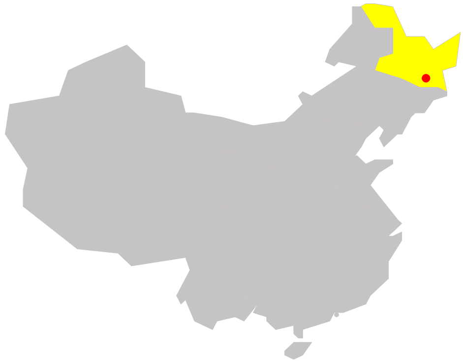 position of Mudanjiang in China